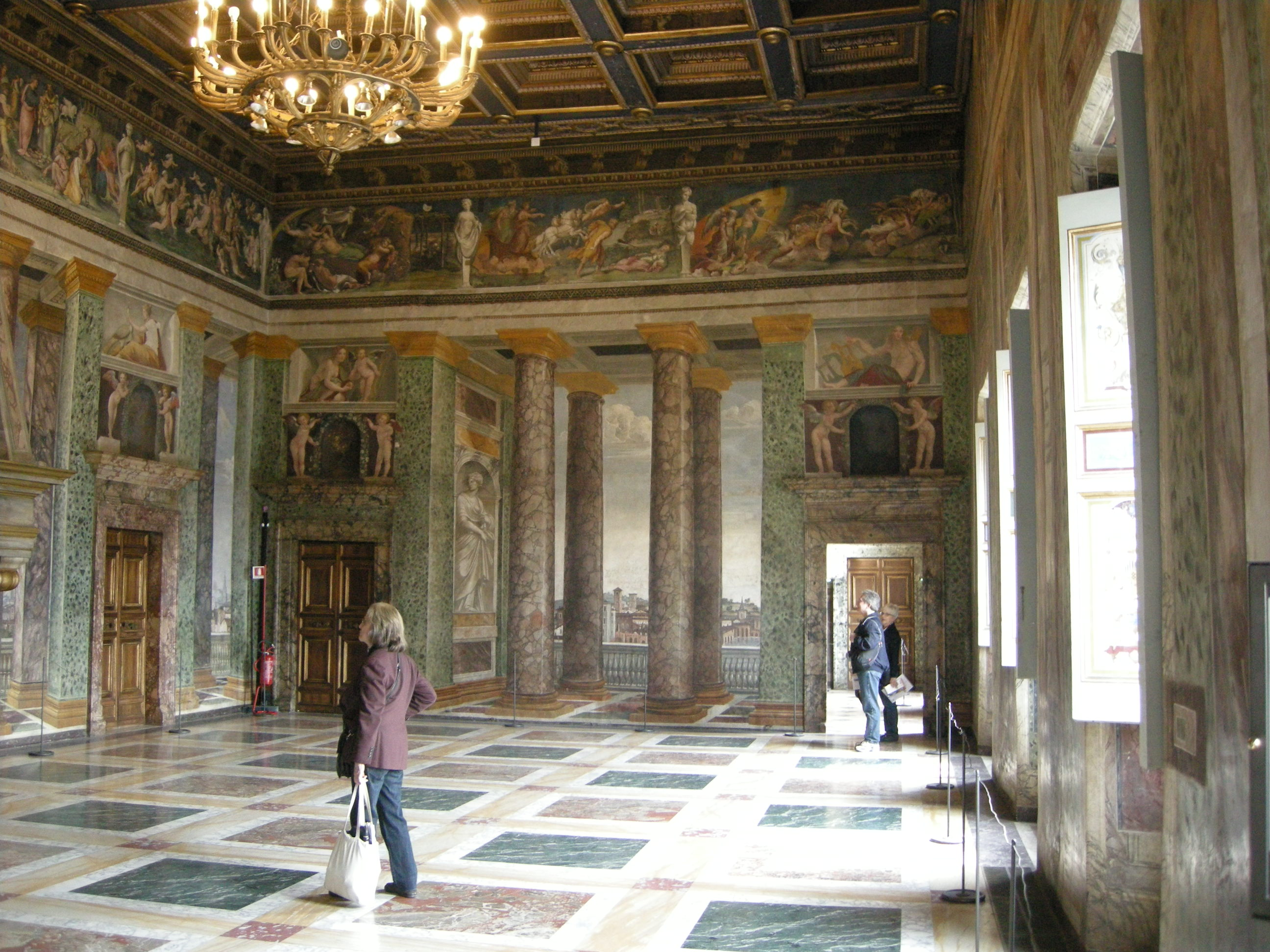 Villa Farnesina, Rome